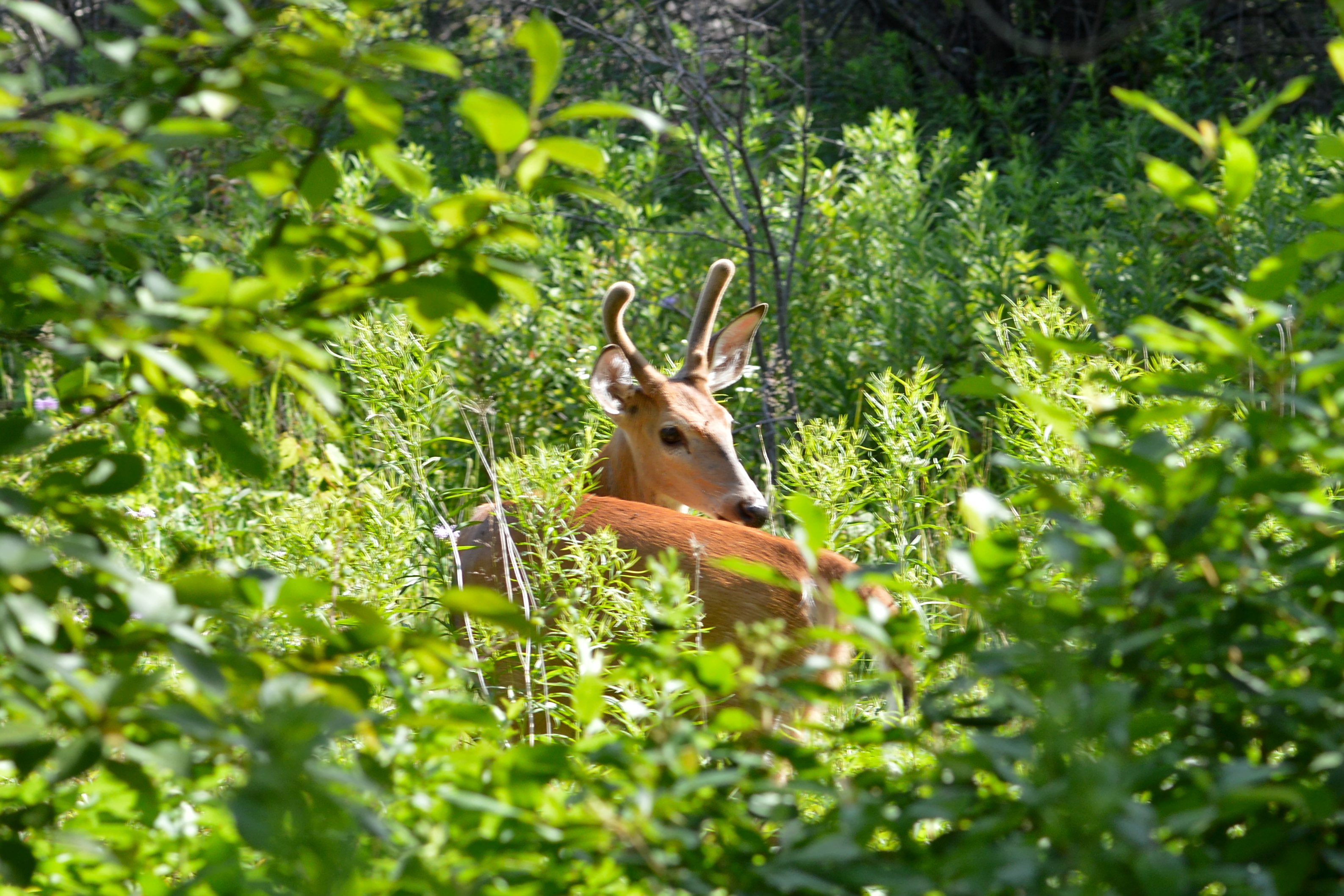 Male White-tailed Deer (Odocoileus virginianus) at Kilally Meadows in London, Ontario, Canada.